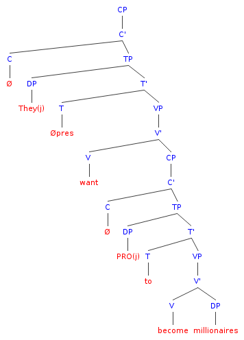 This is a syntactic tree diagram of the sentence "They want to become millionaires" in order to show the relation between PRO ('big pro') and an overt subject with regards to noun plurality.